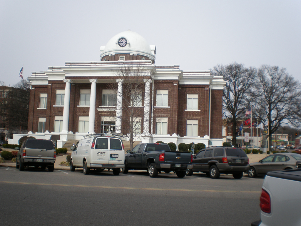 Dyer County Courthouse in Dyersburg, Tennessee